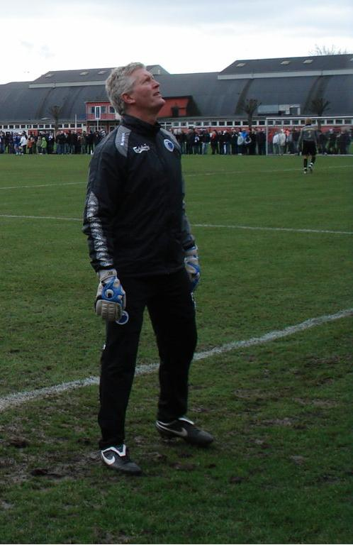 Goalie coach Per Wind getting back a ball during the game.